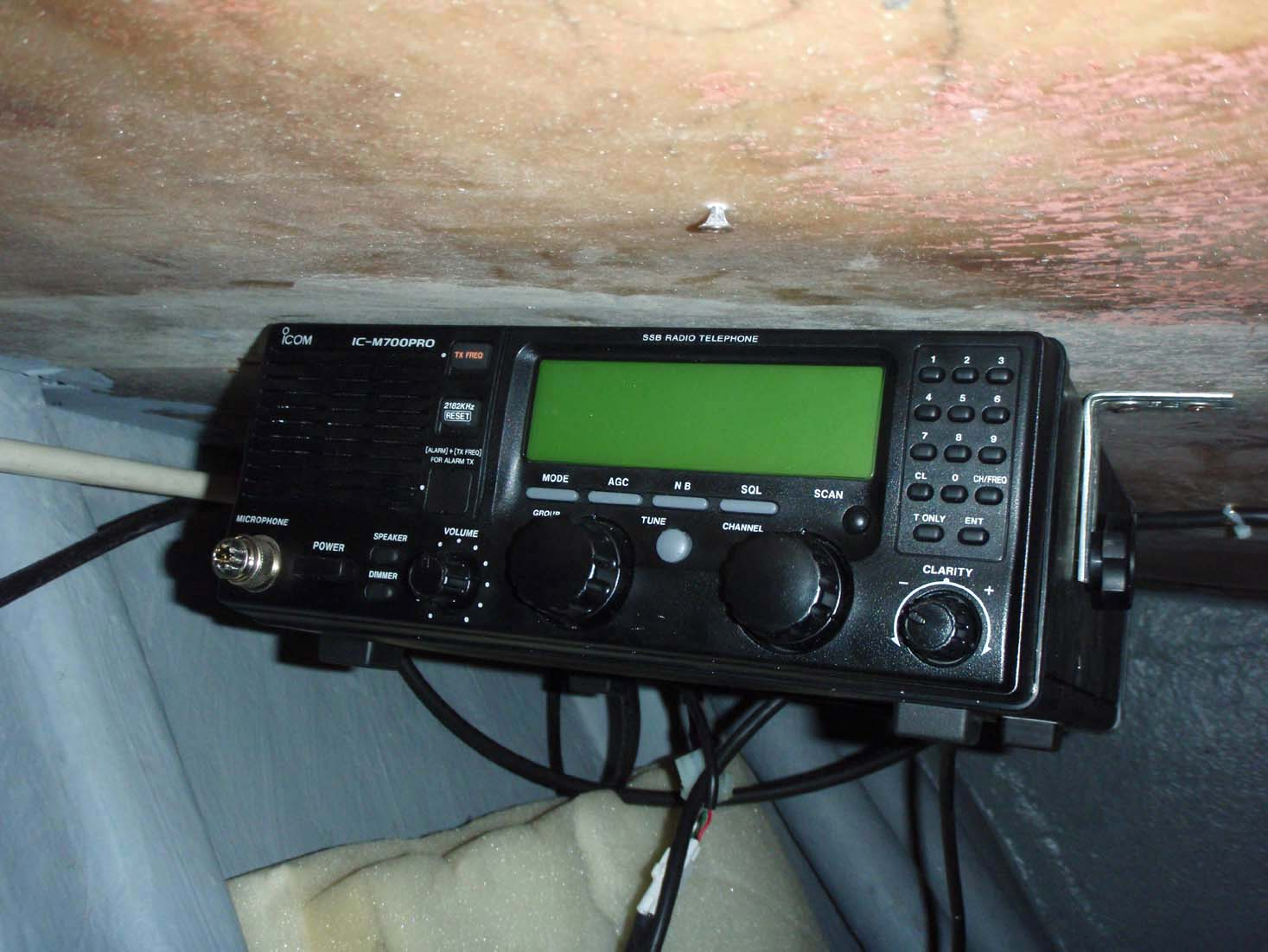 ICOM M700Pro marine SSB radiotelephone.